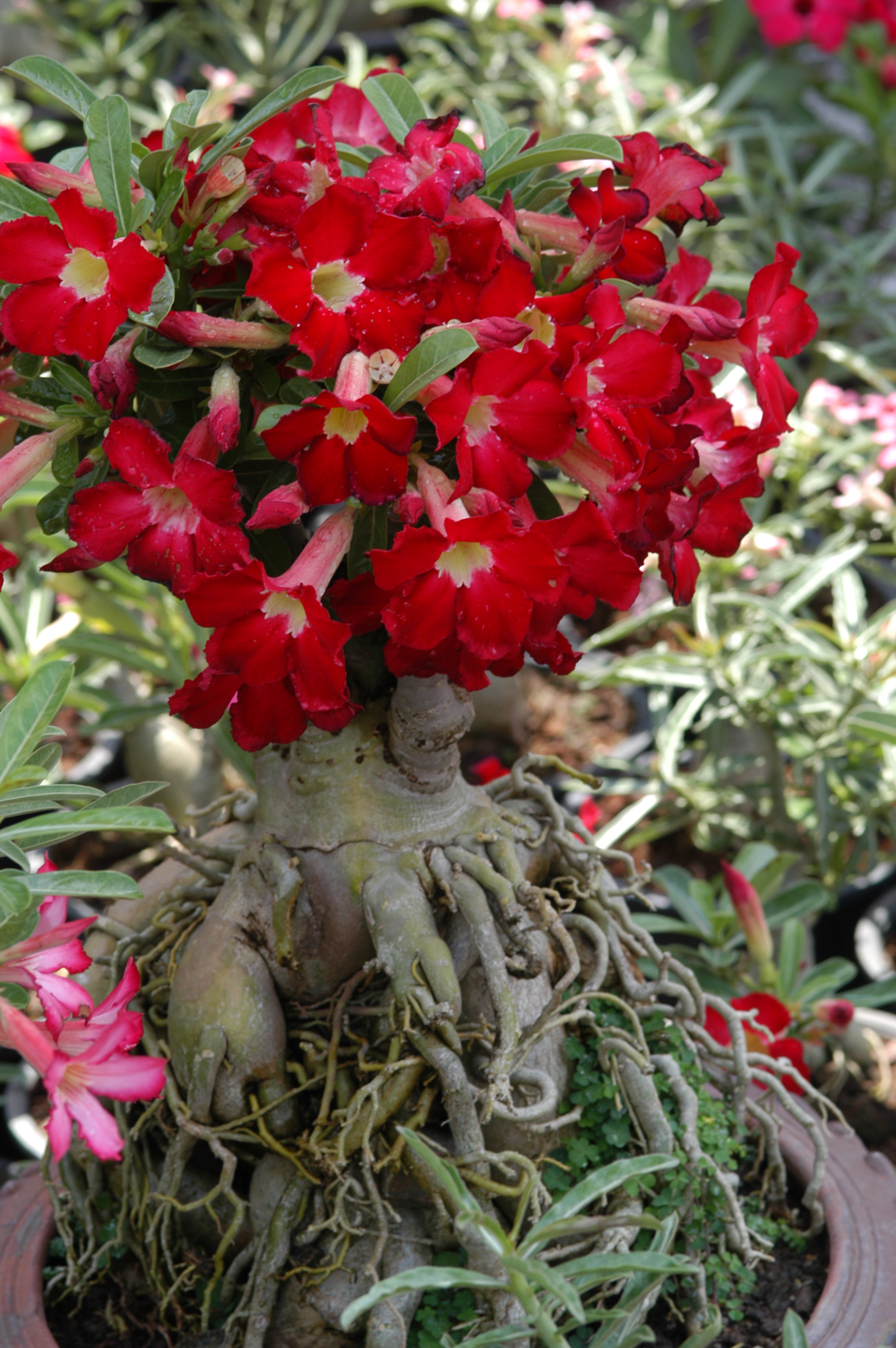 Adenium obesum